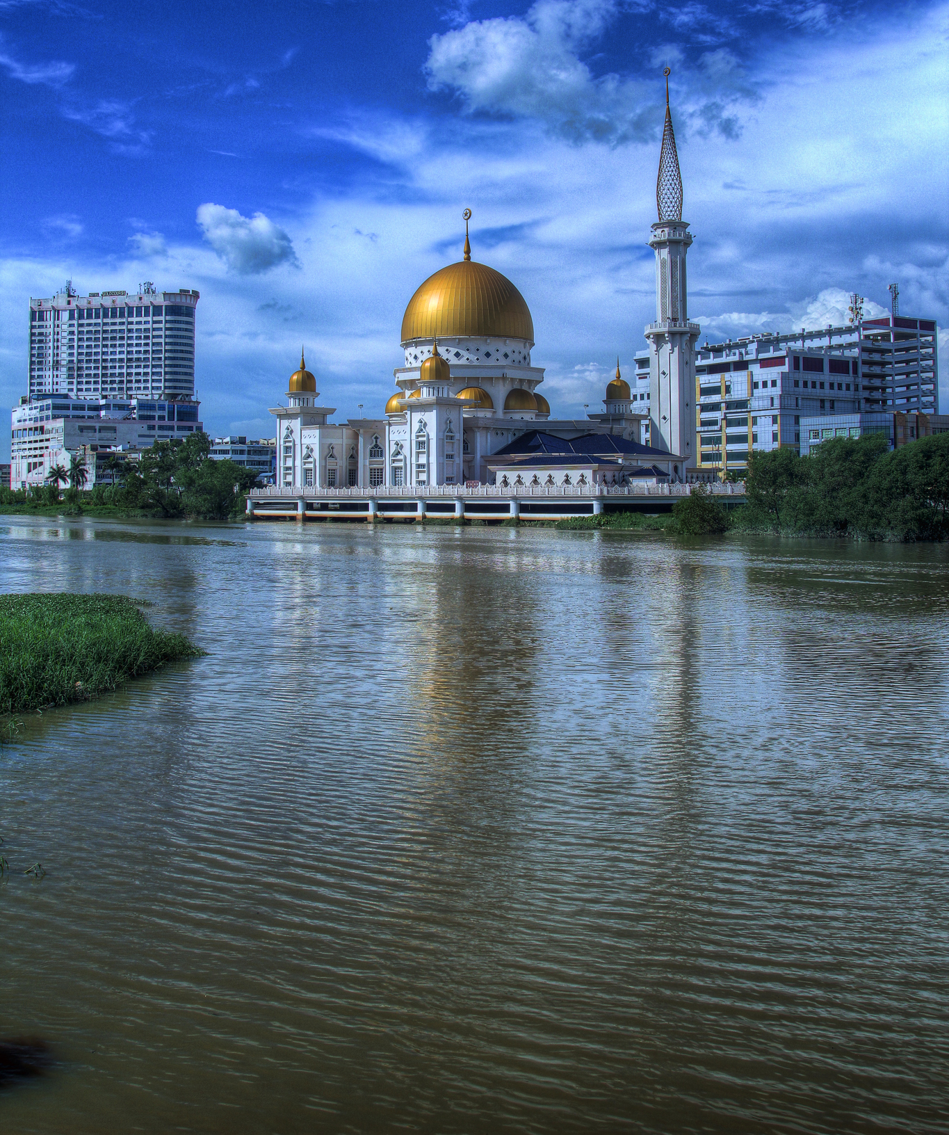 Klang Utara Royal Town Mosque, Klang, Selangor, MalaysiaBahasa Melayu: Masjid Bandar Diraja Klang Utara, Klang, Selangor, Malaysia